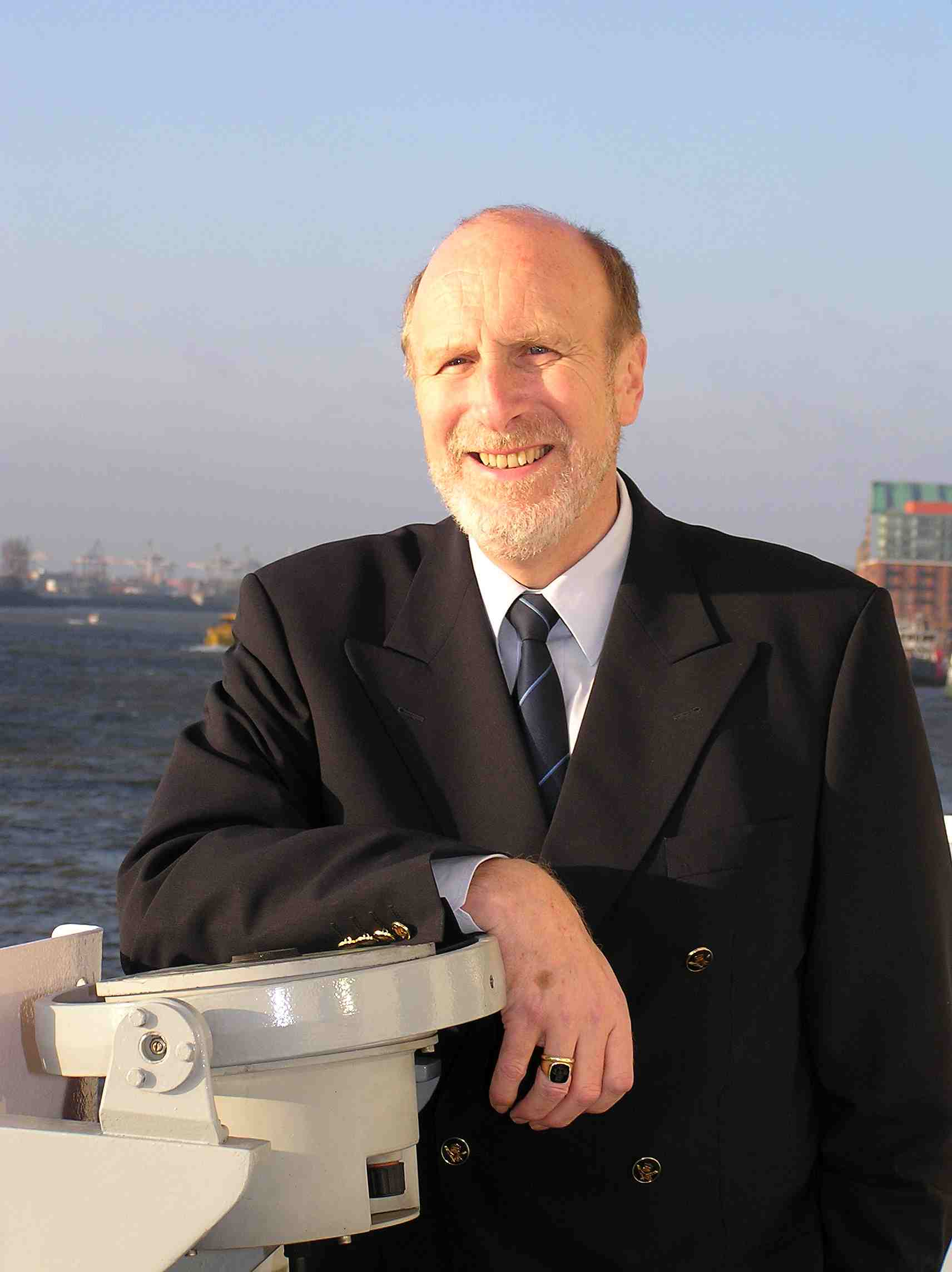 Prof. Dr. iur. Dr. h.c. Peter Ehlers, Hamburg, Germany